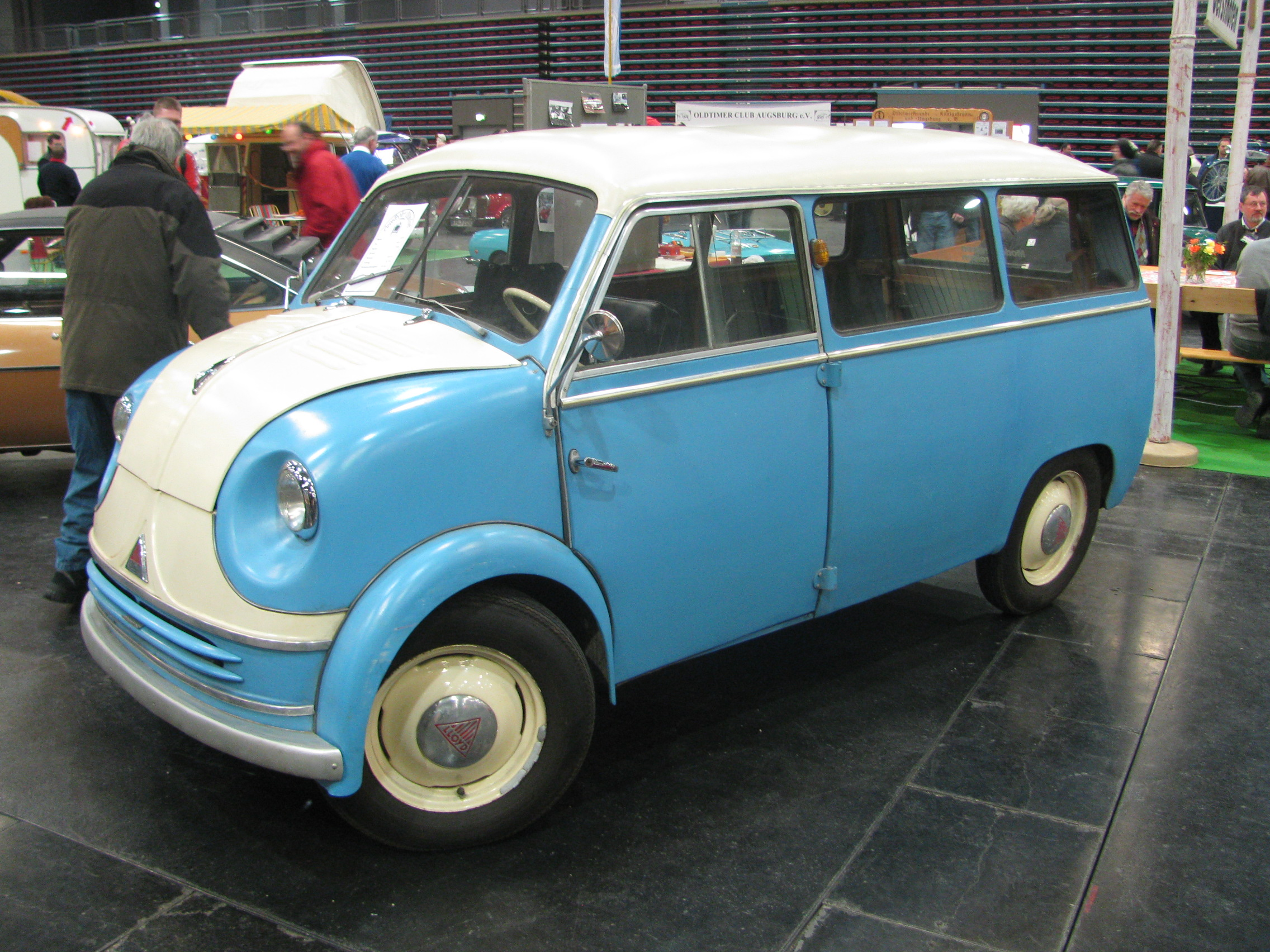 Lloyd 600 LT from 1956. Powered by a 600-cm³, 2-cylinder engine, that gives 19.5 hp which is enough for a maximum speed of 85 km/h. MotoTechnica Augsburg 2012.